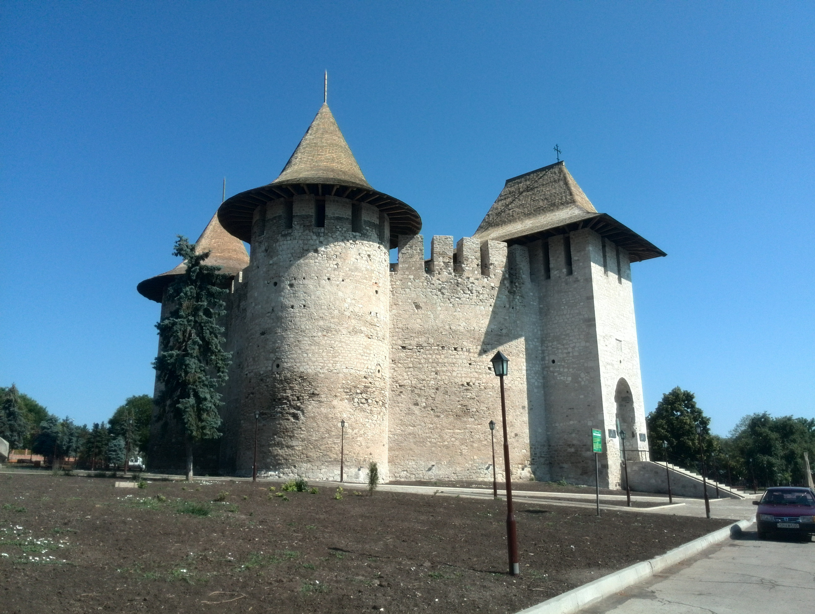 Soroca fort in Soroca, Moldova